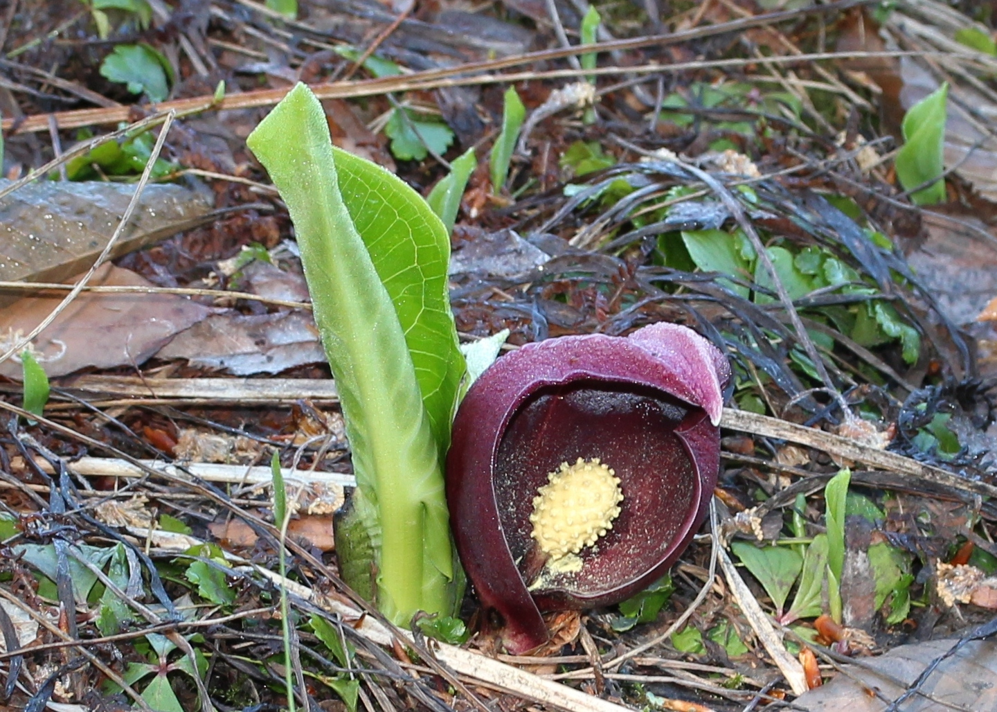 Symplocarpus foetidus in Mount Mominuka, in gifu pref., Japan.